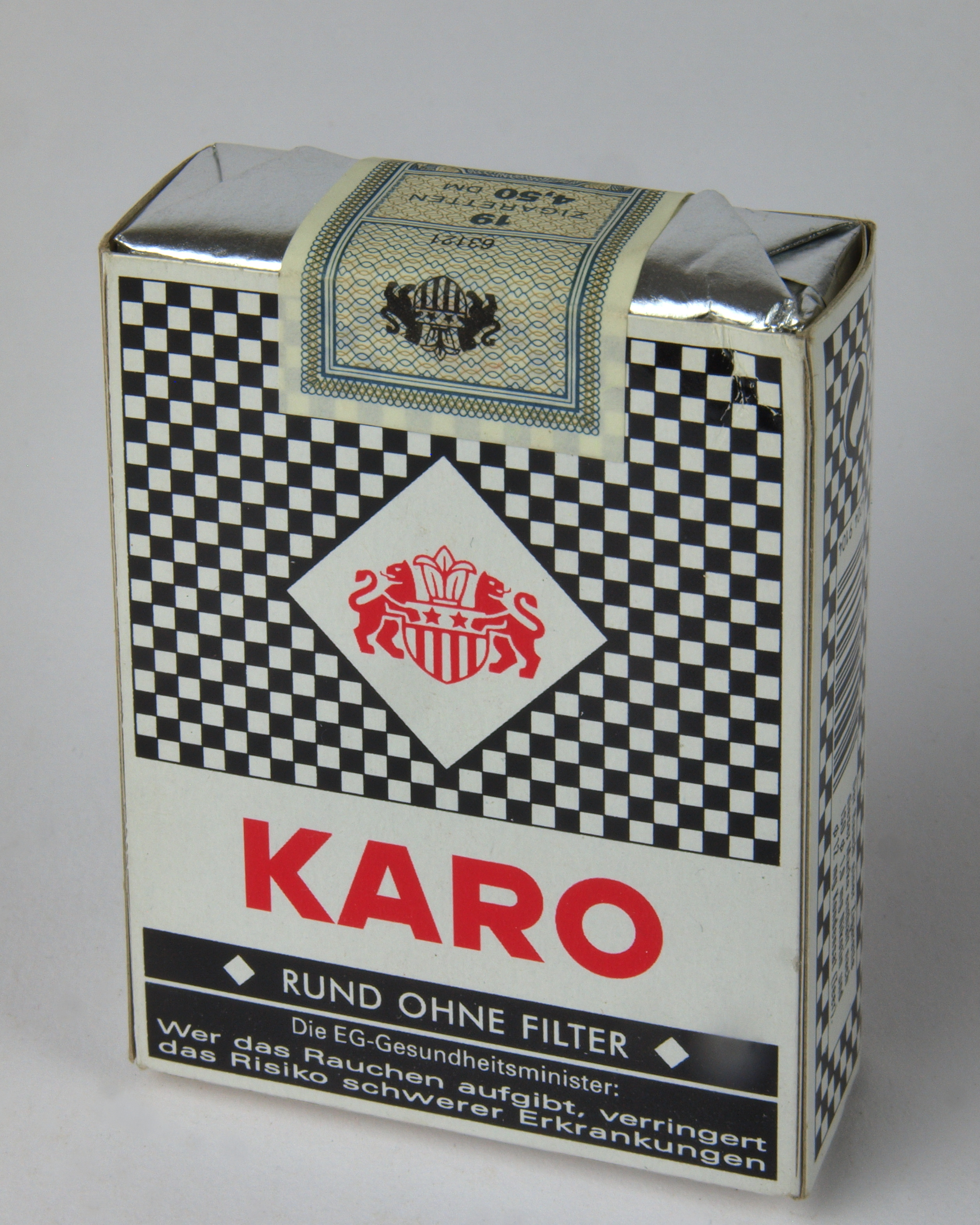 KARO cigarettes box. Approx. from 1990 Height: 74 mm (2.91 in). Width: 67 mm (2.64 in). Depth: 22 mm (0.87 in). Weight: 0.0207 kg (0.05 lb)